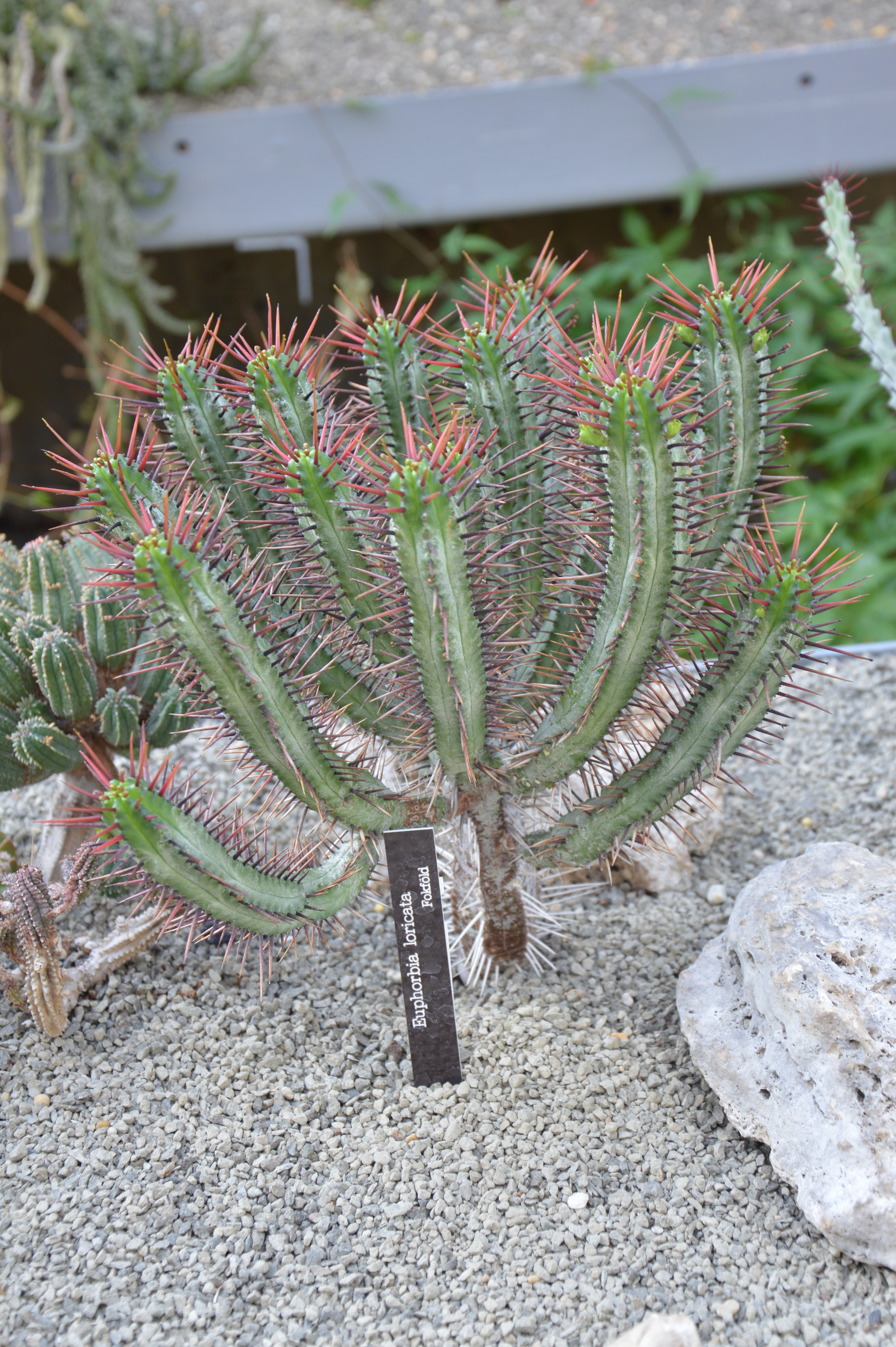 NOT AT ALL Euphorbia loricata! at Füvészkert (Botanical Garden Budapest). The tag does NOT belong to the plant!